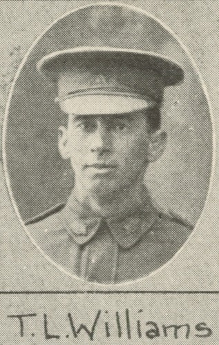 T.L. Williams one of the soldiers photographed in The Queenslander Pictorial supplement to The Queenslander 1917